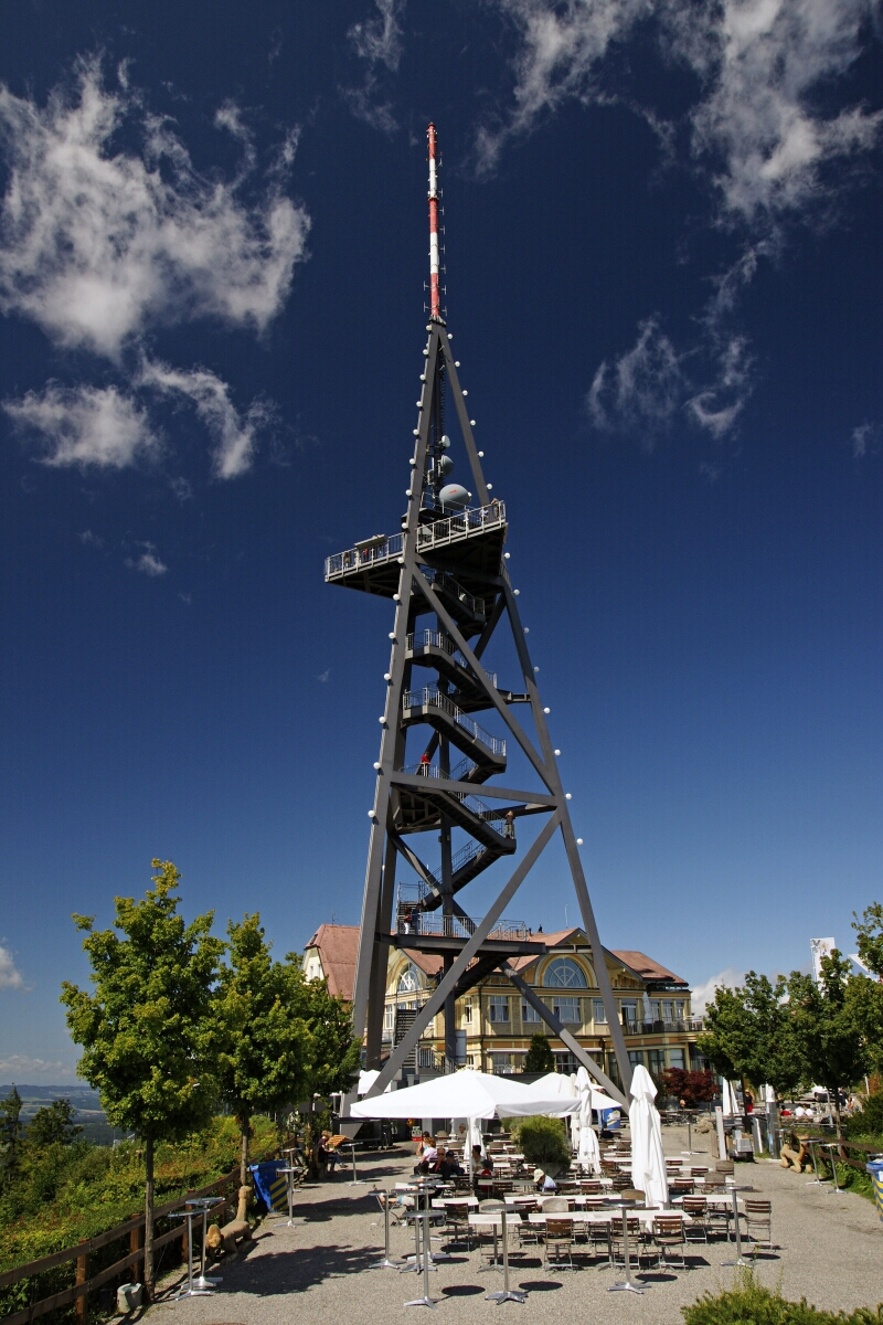 Zurich, Uetliberg, look-out